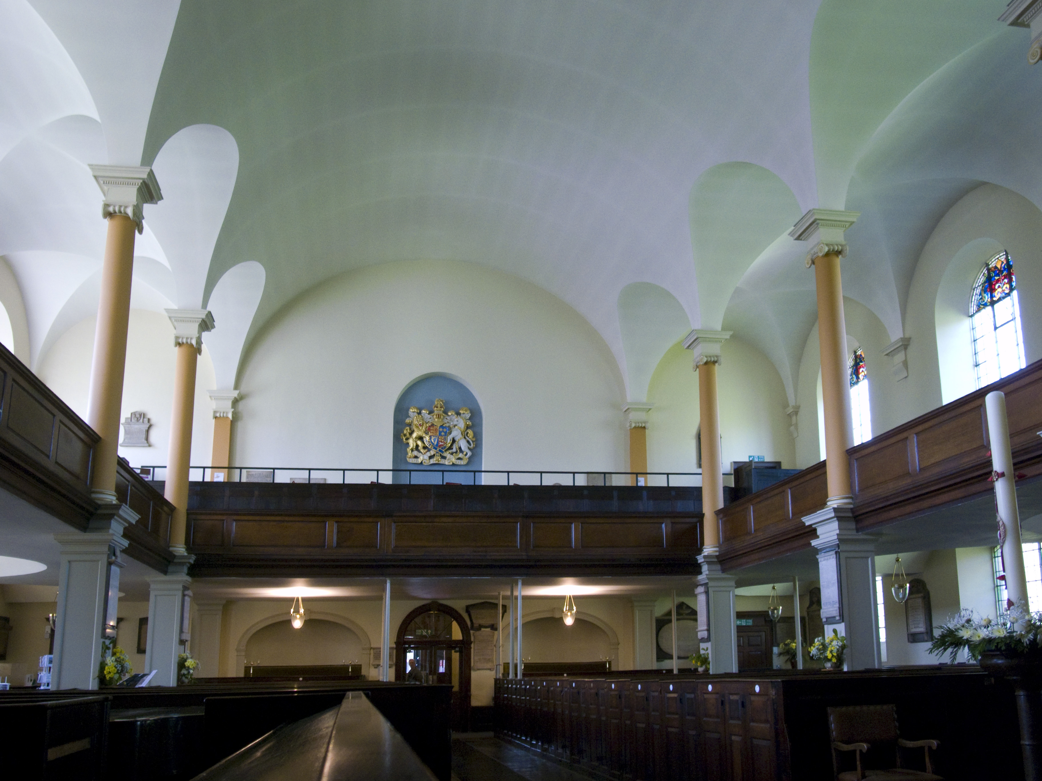 The west wall of St Paul's Church, in the Jewellery Quarter, Birmingham, England. The recently-added royal coat of arms is that of King George III.